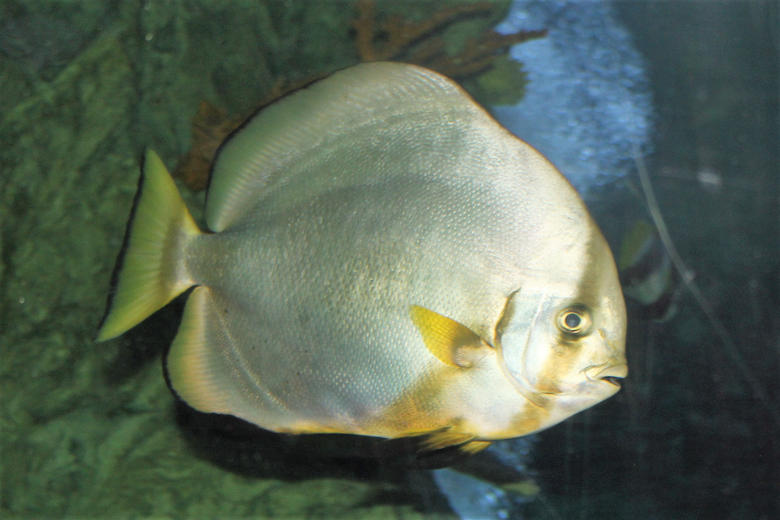 Pacific spadefish (Chaetodipterus zonatus) in Southend-on-Sea aquarium, England.